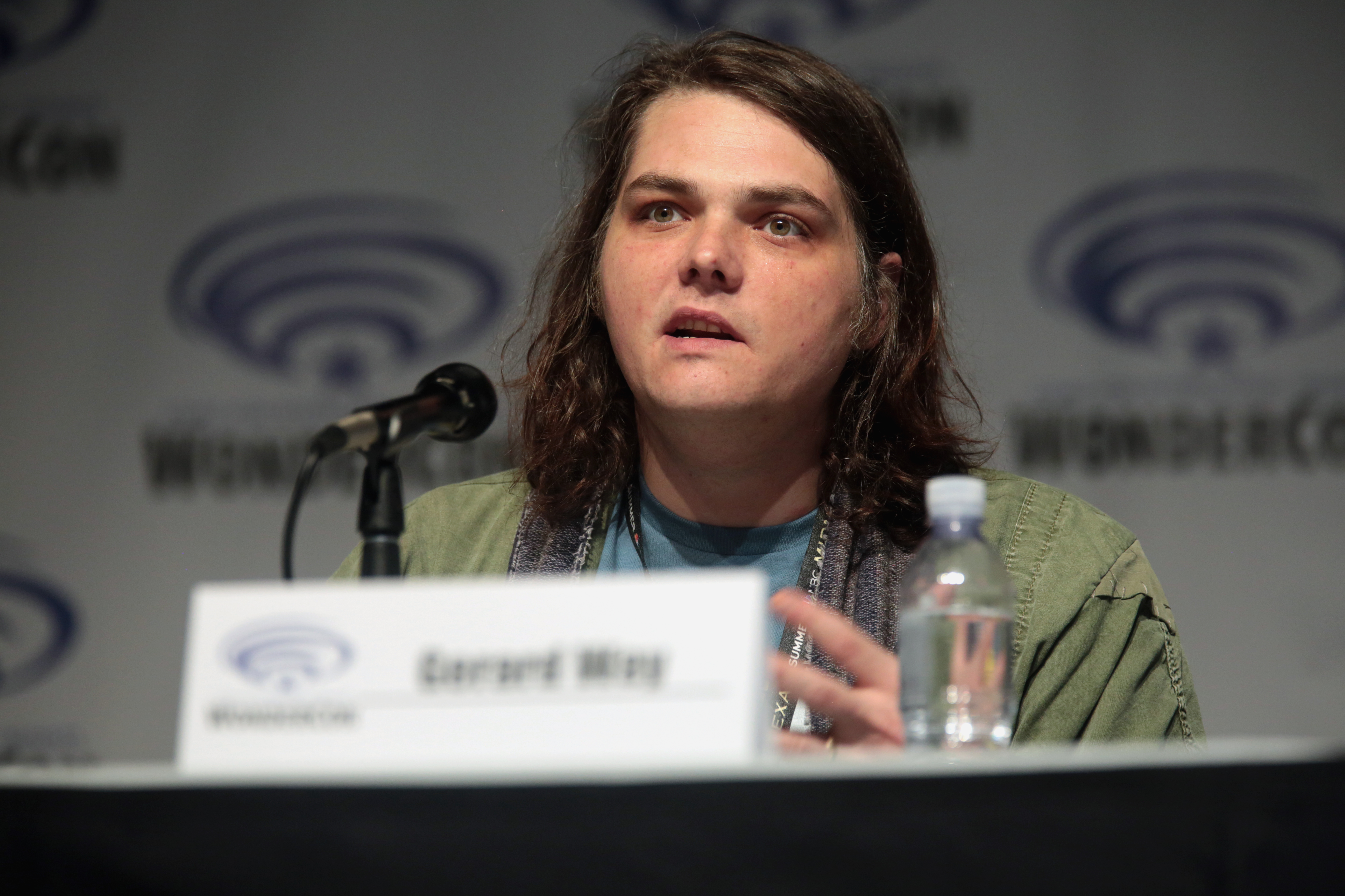 Gerard Way speaking at the 2017 WonderCon, for "DC's Young Animal", at the Anaheim Convention Center in Anaheim, California.